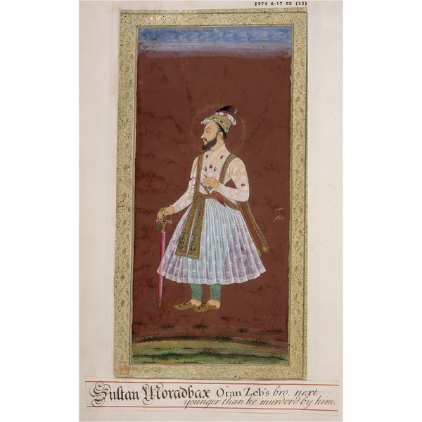 Murad Baksh, youngest son of Shah Jhan, and the younger brother of Aurangzeb, Deccan, late 17th century. Miniature portrait watercolours, ink and gold on paper. Hyderabad, Deccan, India.